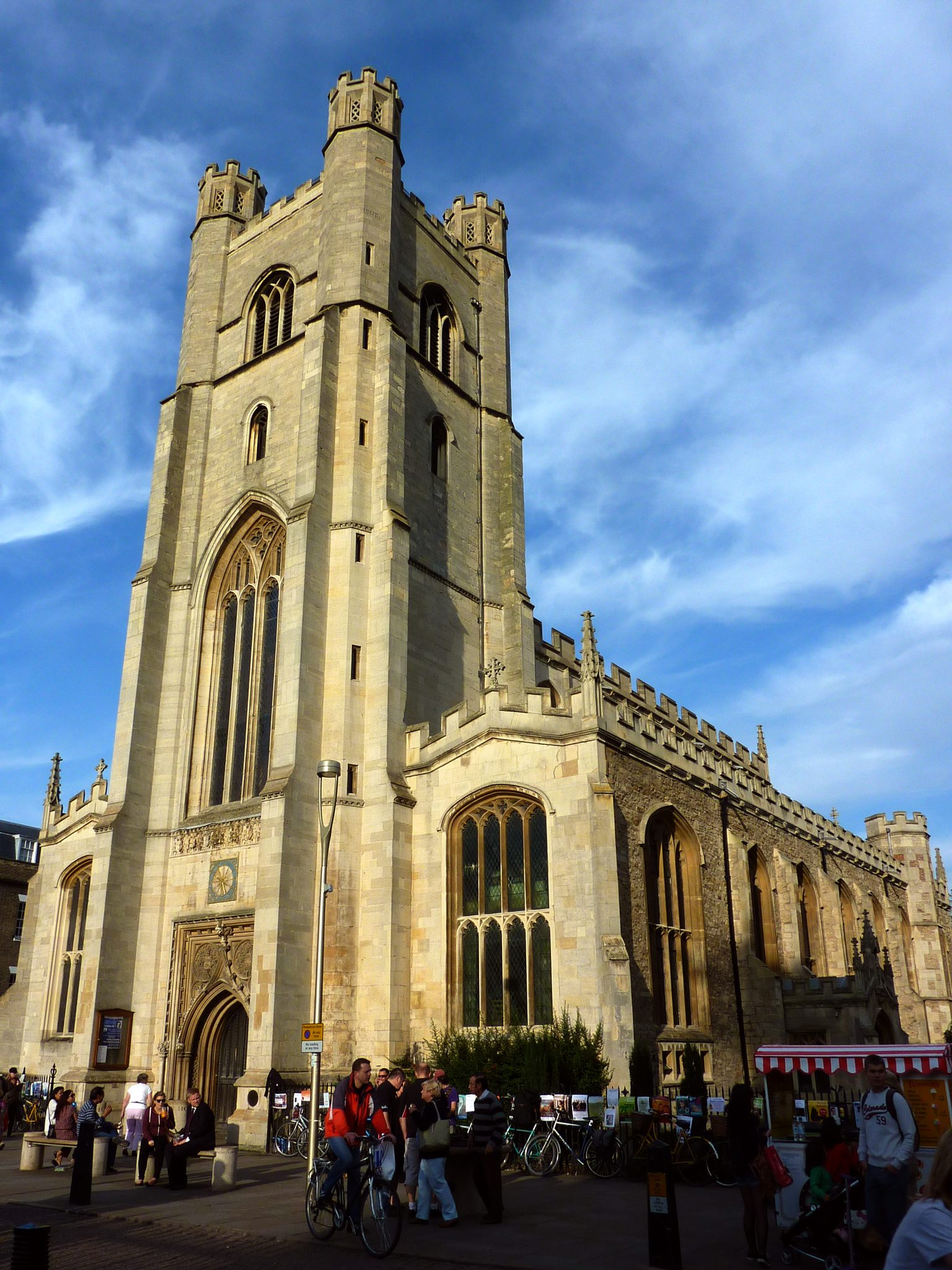 West facade of the Church of St Mary the Great, Cambridge.